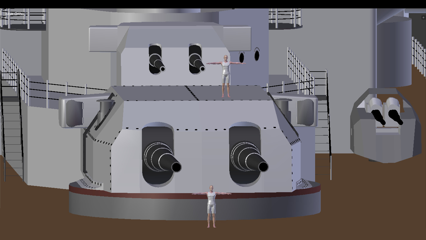 A close up shot of the bow with two 6 foot male sailor figures to show size comparison of the Main 380mm ship guns, and the secondary 150mm guns along with the dual purpose 105mm Anti Aircraft/dual purpose batteries. The O class cruiser would have mounted 3 main turrets along with 3 secondary turrets, and 4 of the large AA mounts. The ship itself would have been slightly larger than the Battleship Bismarck yet was significantly lighter.